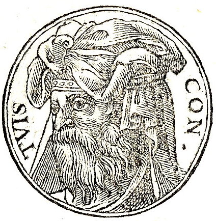 Tuisto (or Tuisco) is the divine ancestor of the Germanic peoples attested in Tacitus' Germania (98 CE).